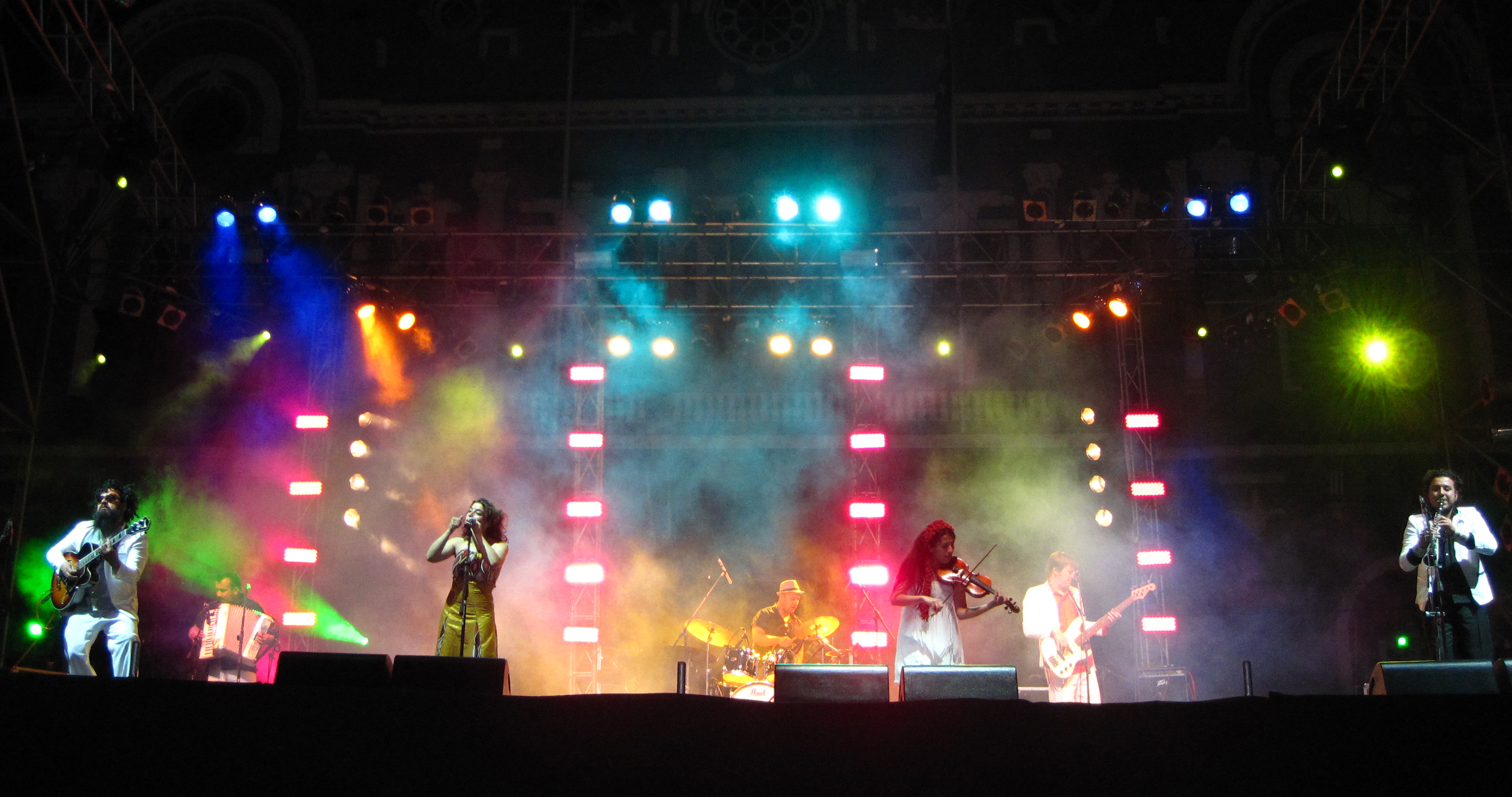 La Mano Ajena in Valparaíso, October 2010